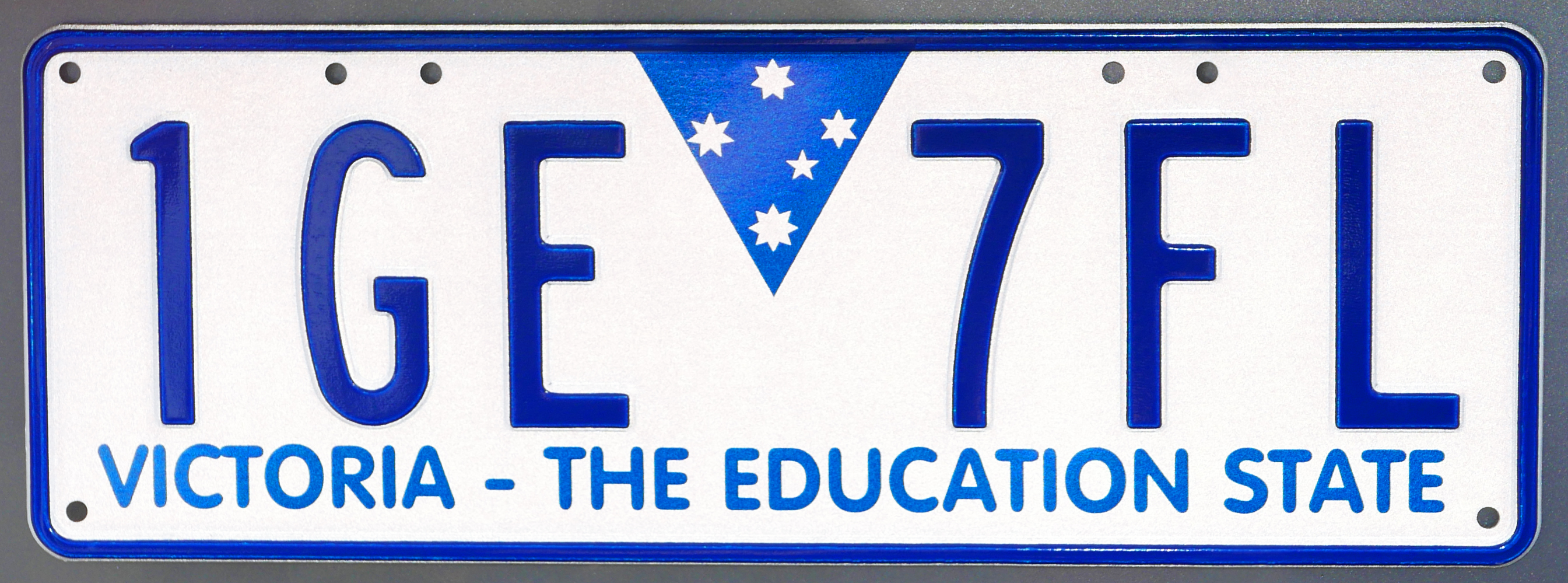 General issue vehicle registration plate of Victoria, Australia. This particular registration plate has the combination 1GE-7FL, first registered 12 November 2015 as per VicRoads. This plate is of standard size, incorporates the slogan "Victoria – The Education State" as issued from 16 October 2015 starting at 1GA-1AA. Photographed in Brunswick East, Victoria, Australia. Vehicle registration enquiry results Jurisdiction Victoria Registration 1GE7FL Chassis code JMFXTGF8WGZ003567 Engine code 4J12QP3179 Compliance date 2015-10 Year of manufacture 2015